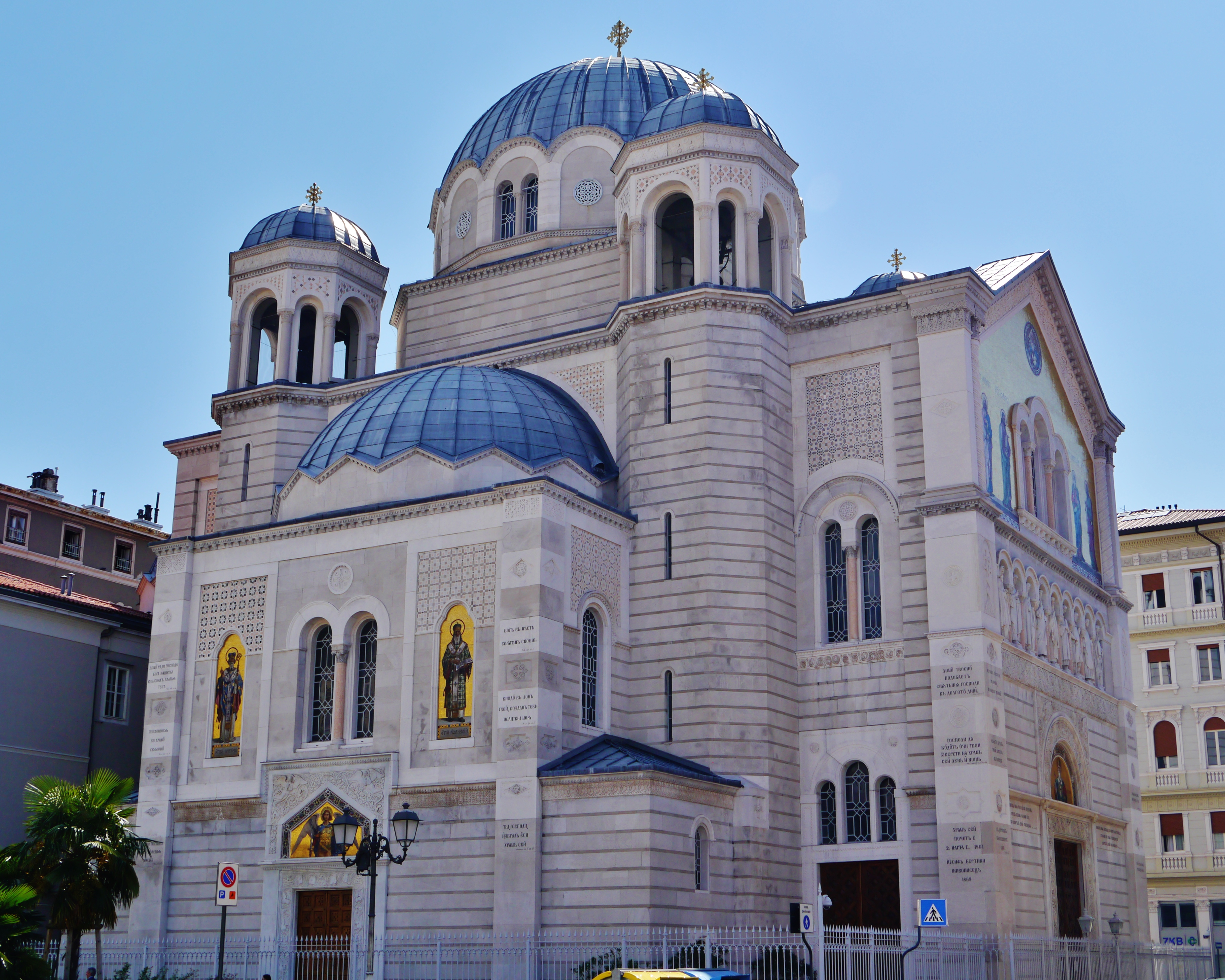 Serbian Orthodox Church San Spiridone, Trieste, Friuli-Venezia Giulia, Italy